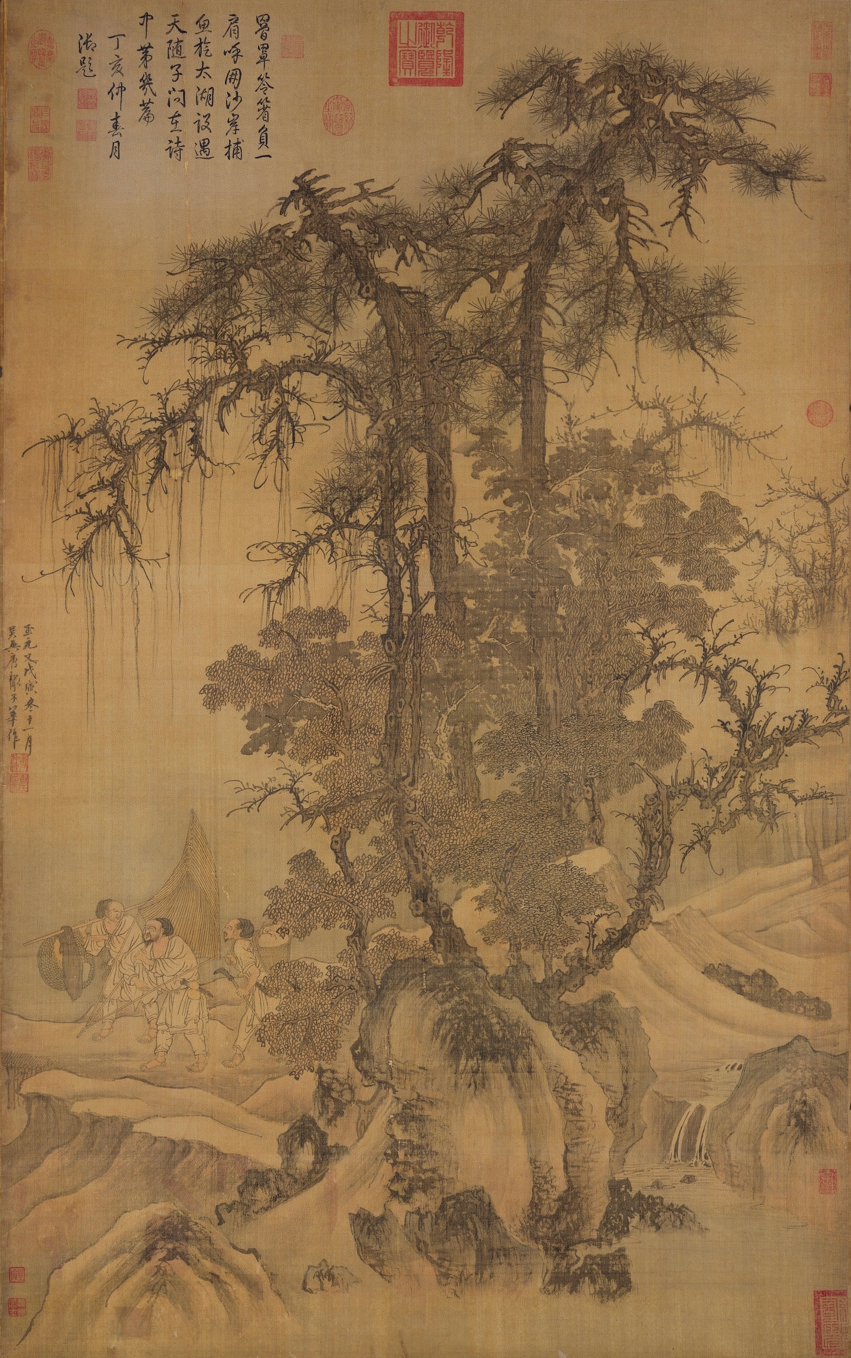 Fishermen Returning on a Frosty Bank, hanging scroll, ink and color on silk, 144 x 89.7 cm. Located at the National Palace Museum, Taibei.